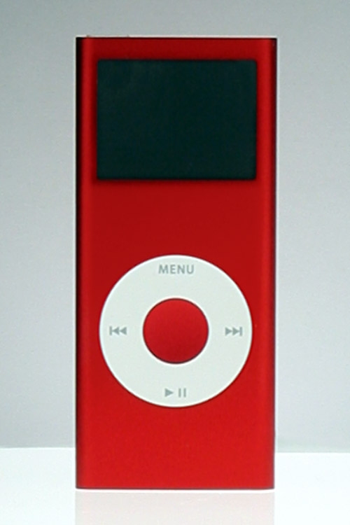 Photo of the iPod nano Product Red Special Edition.